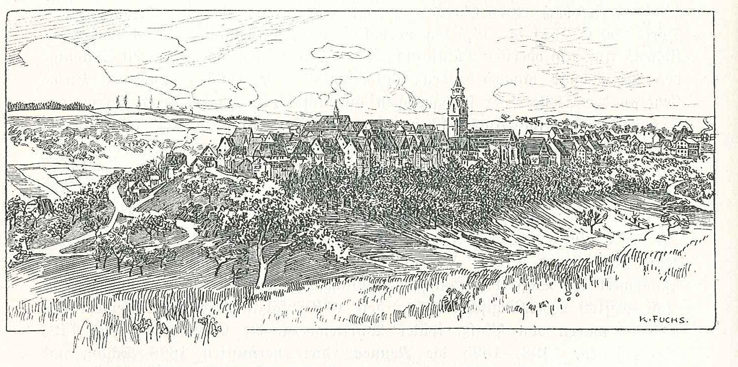 Dornstetten 1905